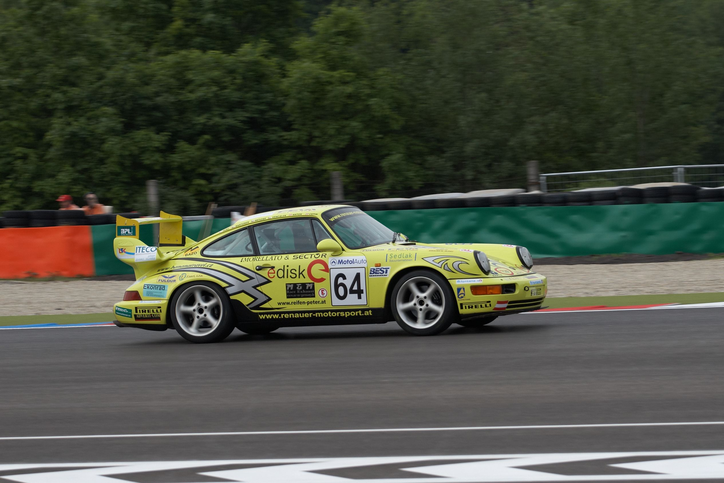 Porsche Carrera 911 RS during 12h Le Brno race